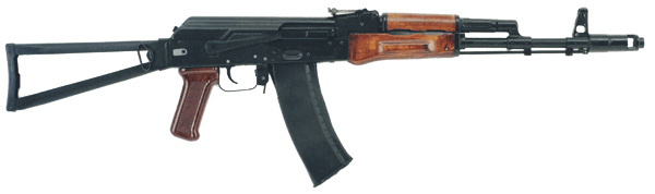 AKS-74 assault rifle